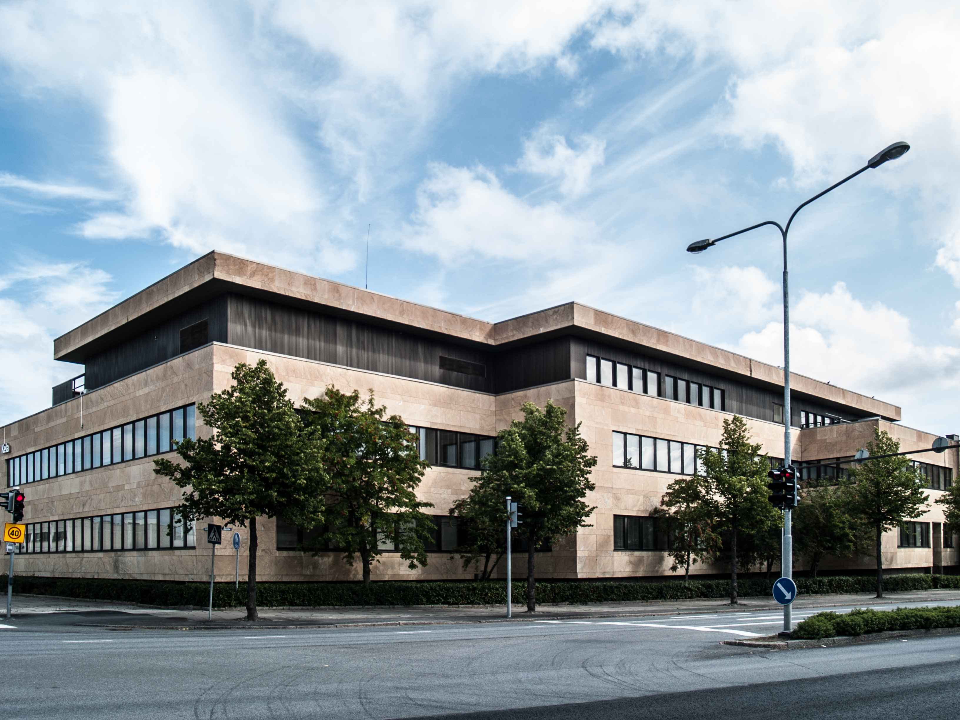 Regional office of KELA, the Finnish social insurance institution, in Seinäjoki, Finland. Clad in yellow marble. Architect Aarne Ehojoki.